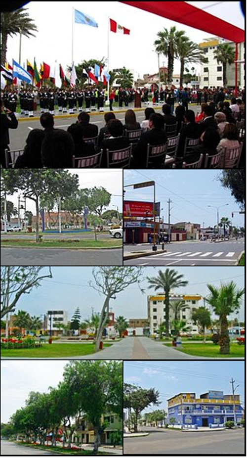 PhotomontageVistaAlegre